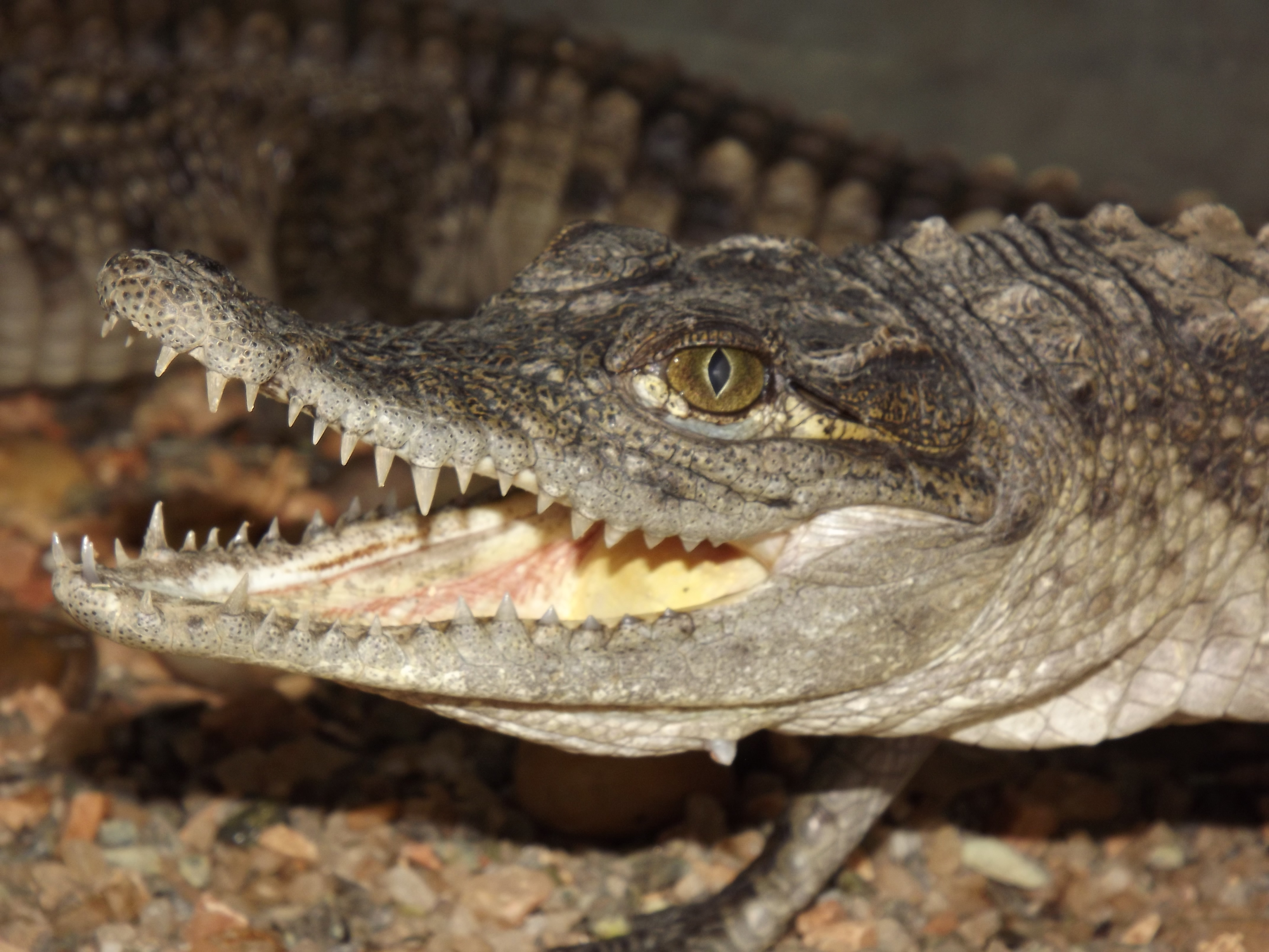 Nile crocodile